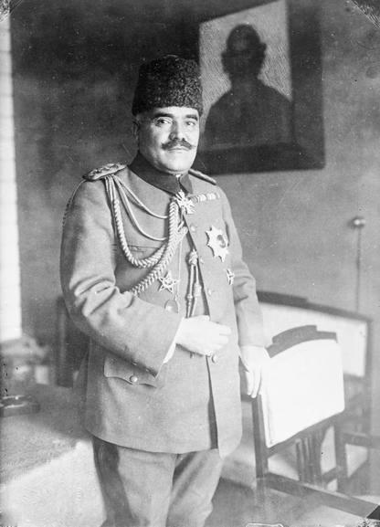 Ottoman General, Zeki Pasha (1862–1943).